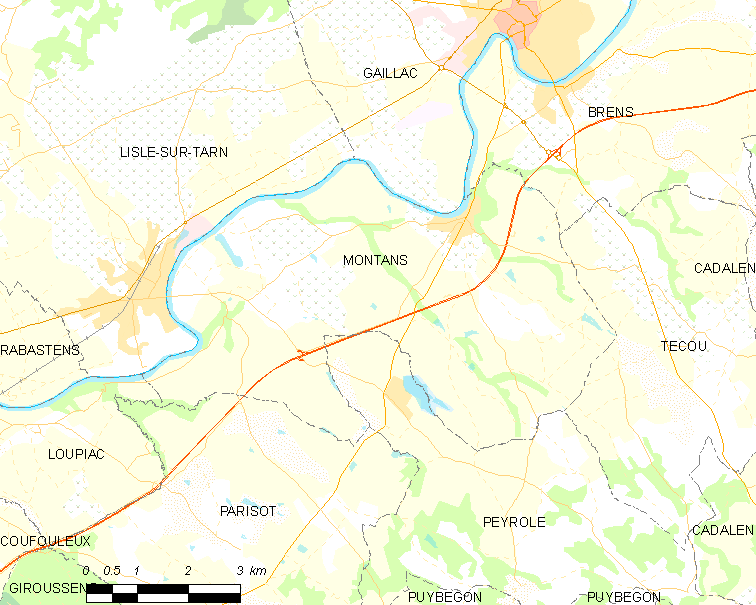 Map of French municipality Montans